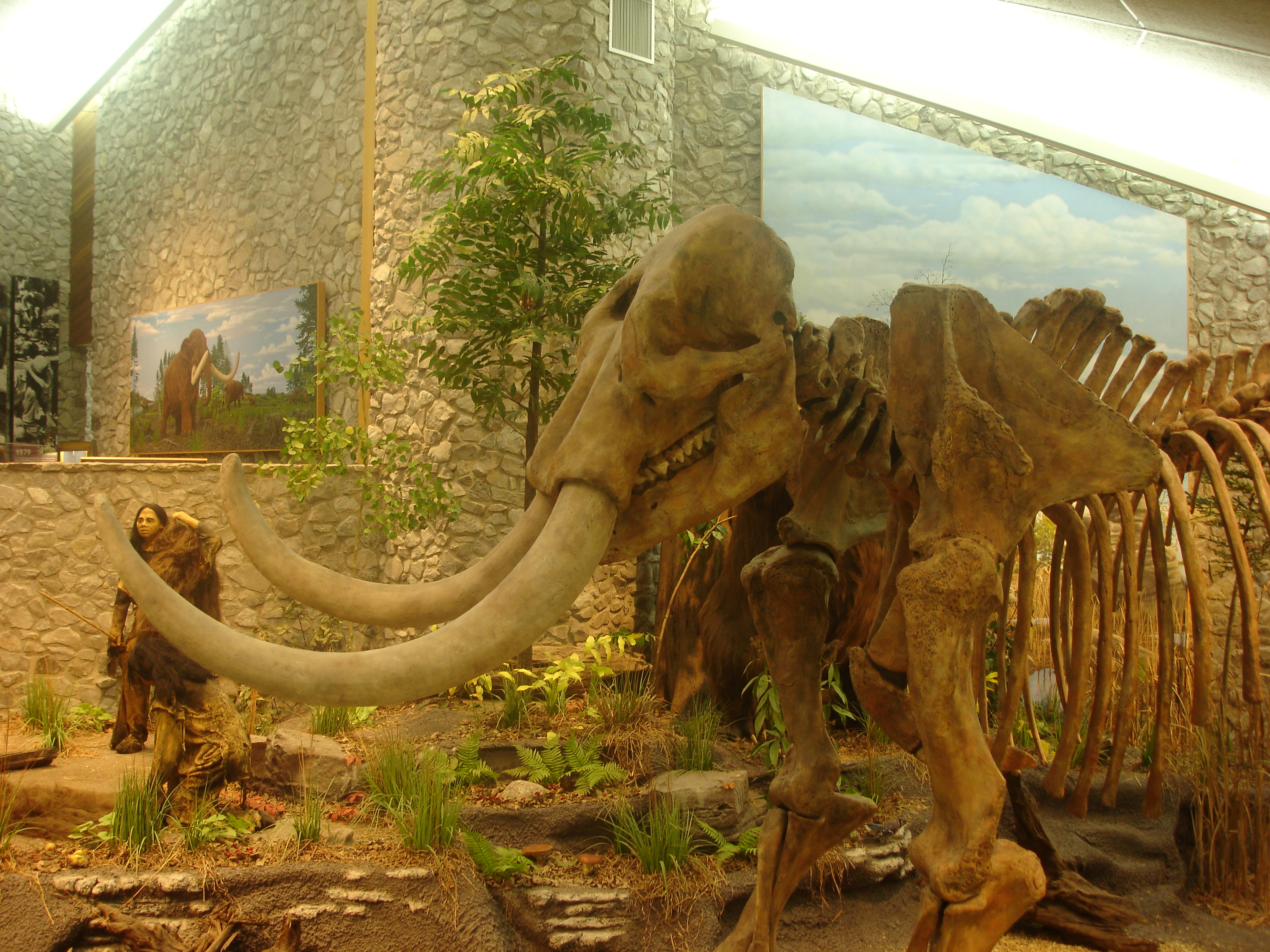 A mastodon skeleton on display in the museum at the Mastodon States Historical Site in Missouri